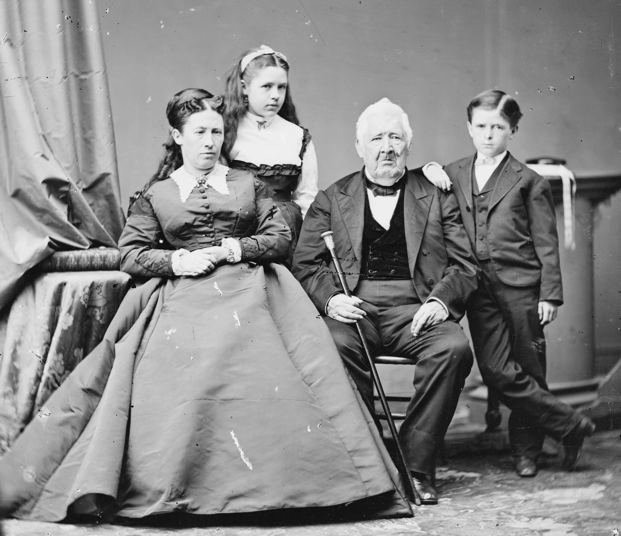 Julia Grant with family. Library of Congress description: "Grant, Mrs. U.S. and son (Jesse) and daughter (Nellie) also her father Mr. Dent"